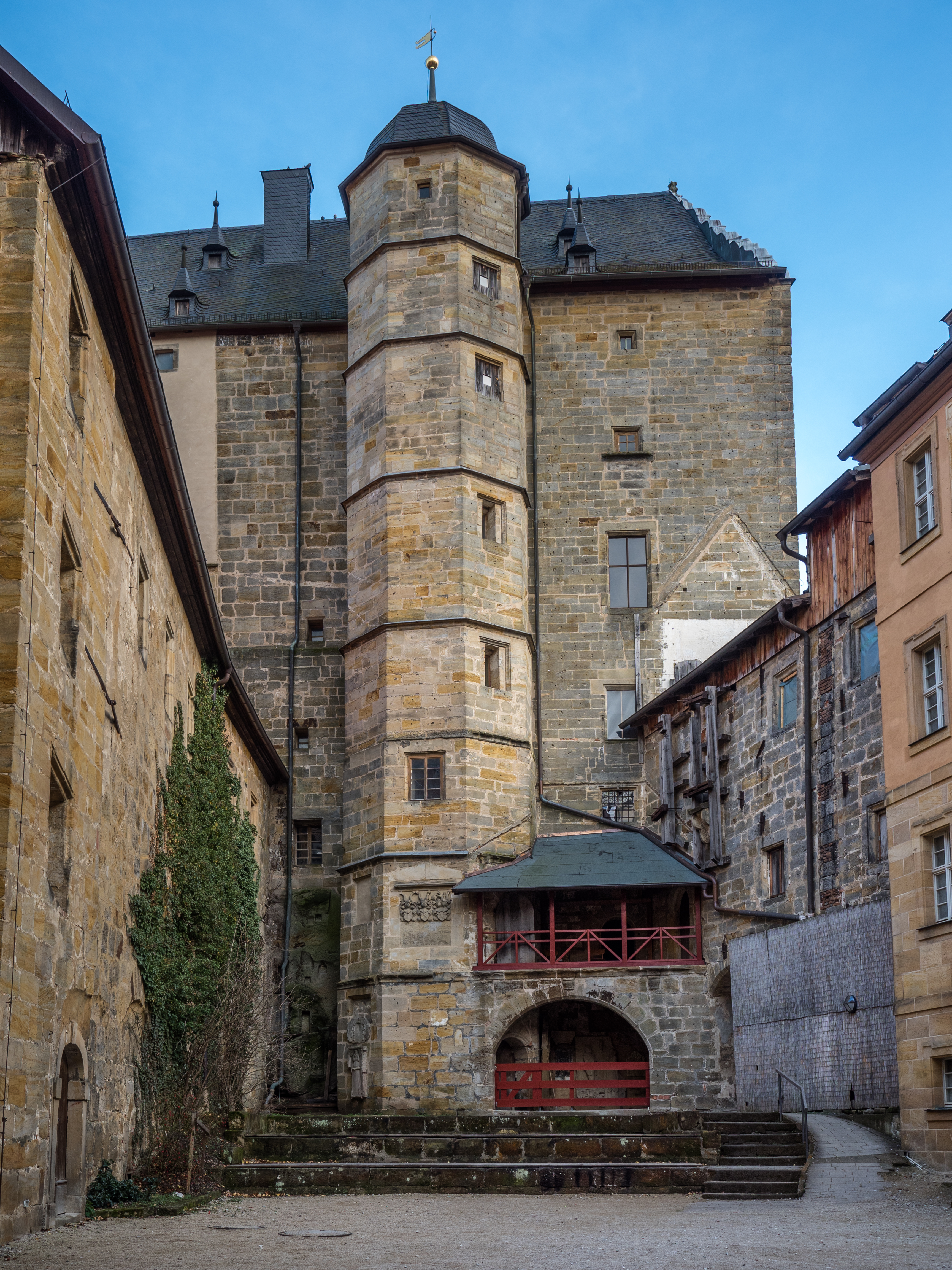 Courtyard of the lower castle in Thurnau